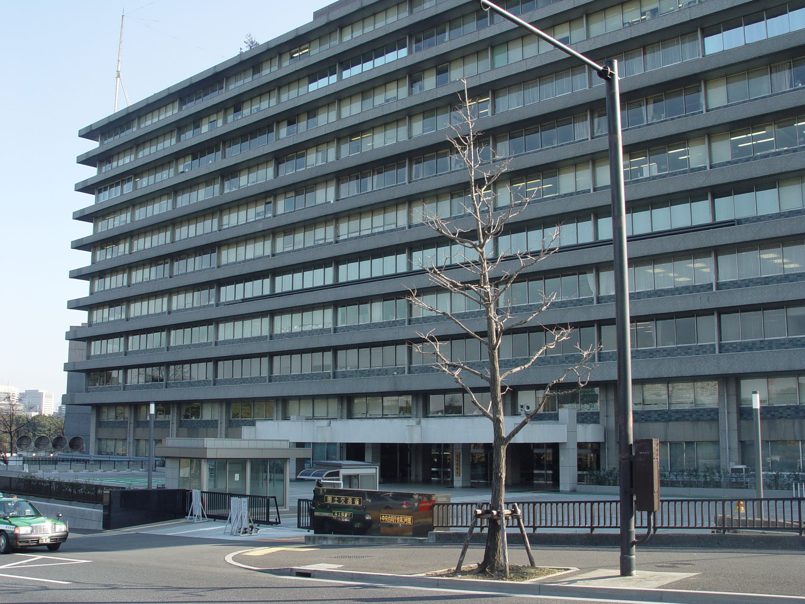 Public office building of the Ministry of Land, Infrastructure and Transport of Japan; and The Japan Coast Guard 国土交通省、海上保安庁庁舎